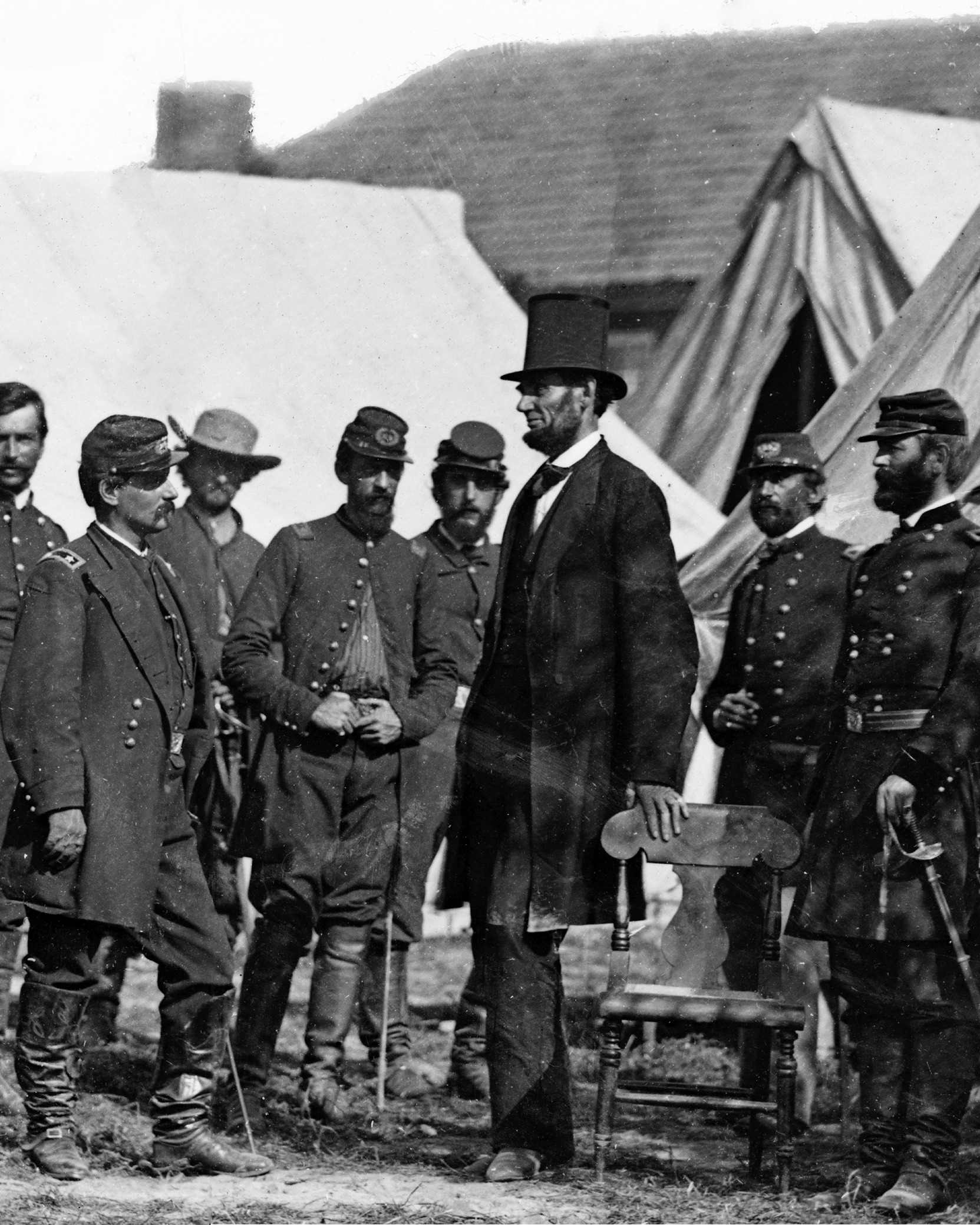 Antietam, Md. President Lincoln with Gen. George B. McClellan and group of officers